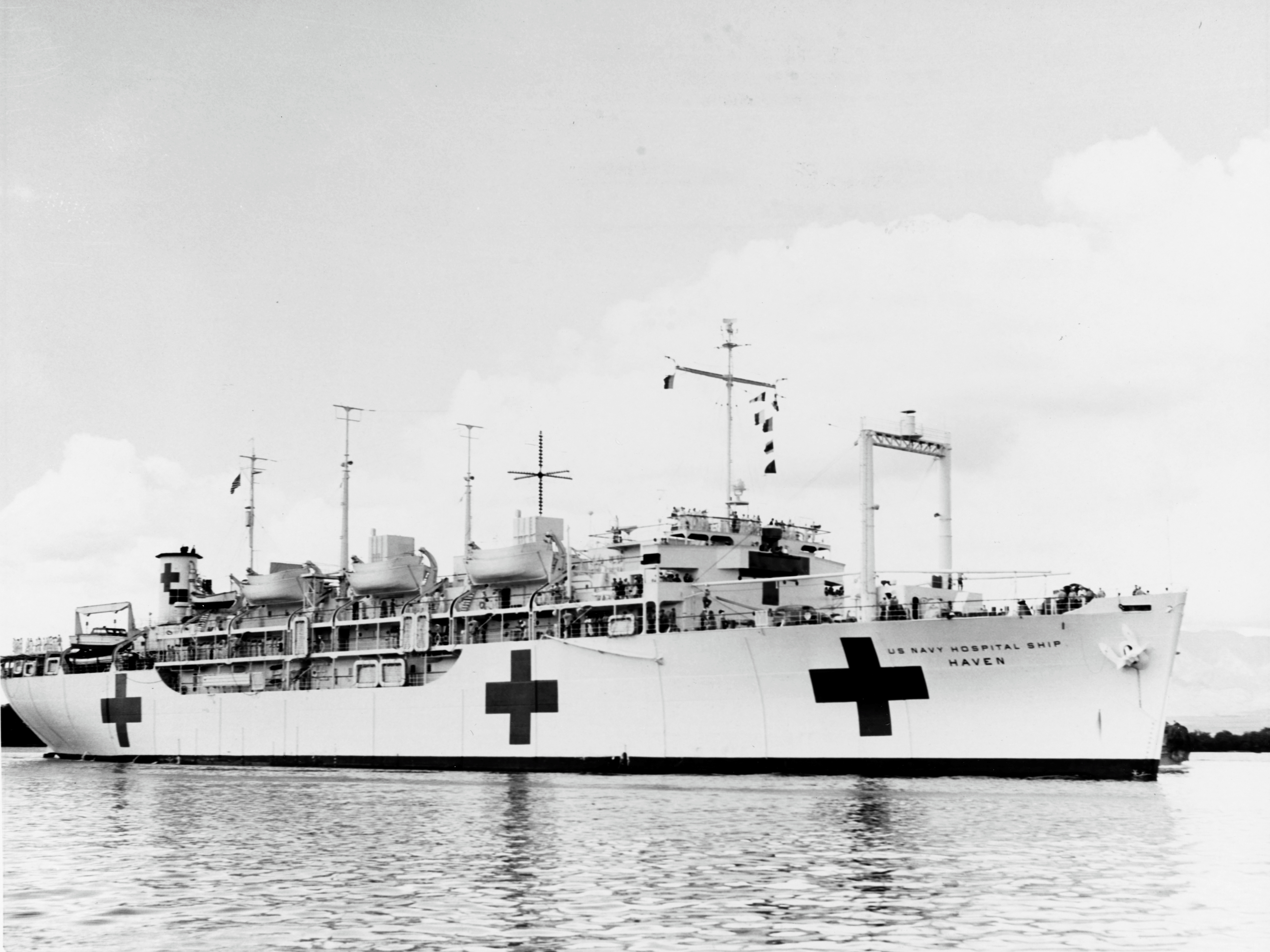 The U.S. Navy hospital ship USS Haven (AH-12) on 19 January 1954. Note the new hospital ship markings, without horizontal bars between the three red crosses.